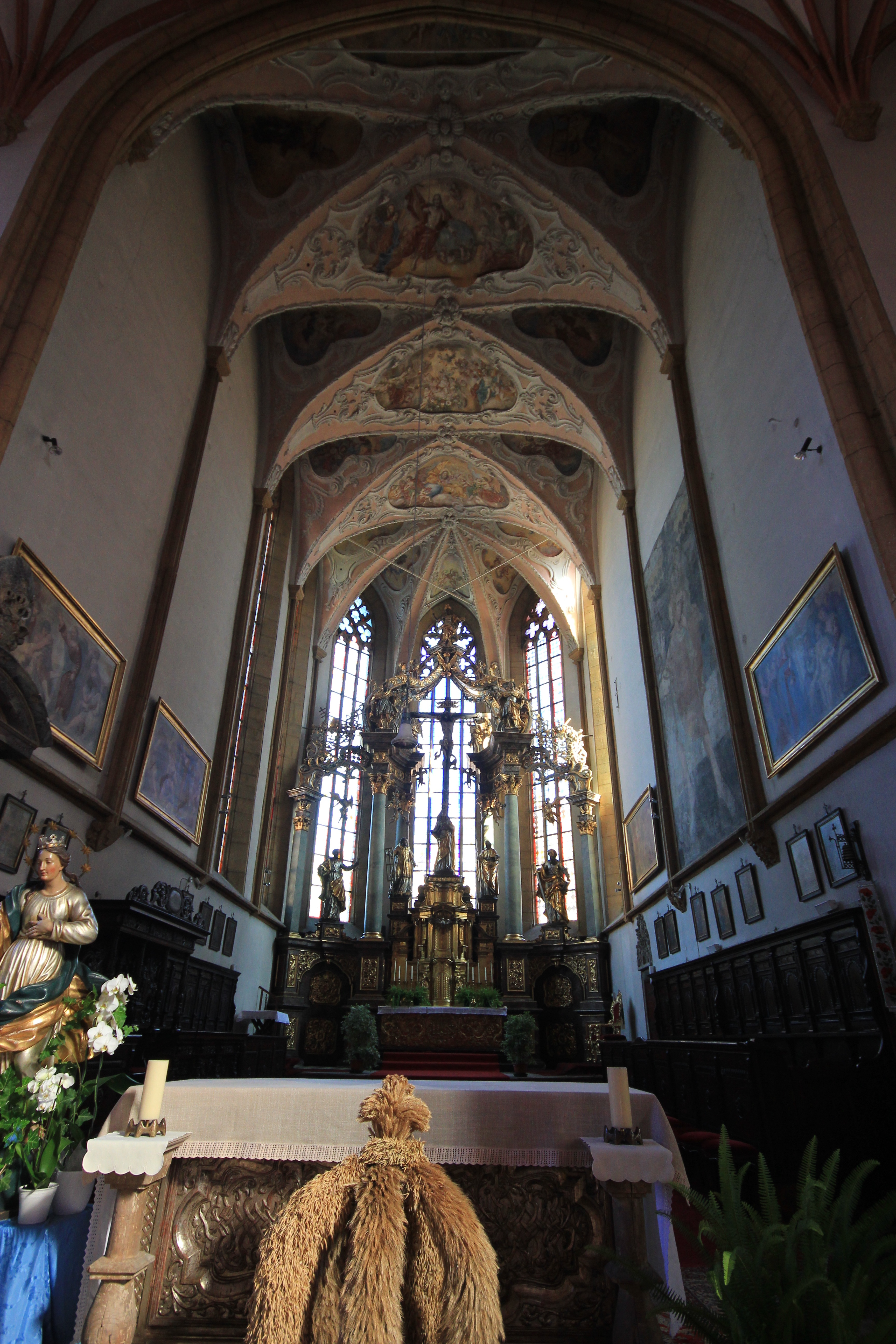 Parish church St. Jakob in Villach - Choir